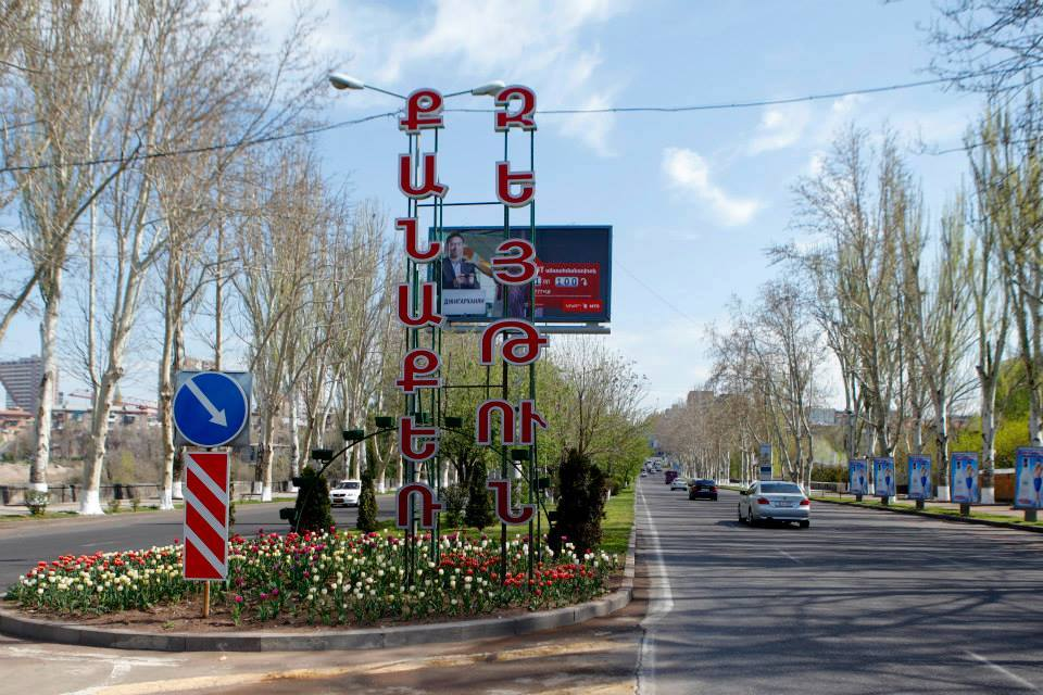 Azatutyan (Liberty) Avenue, Yerevan, Armenia.